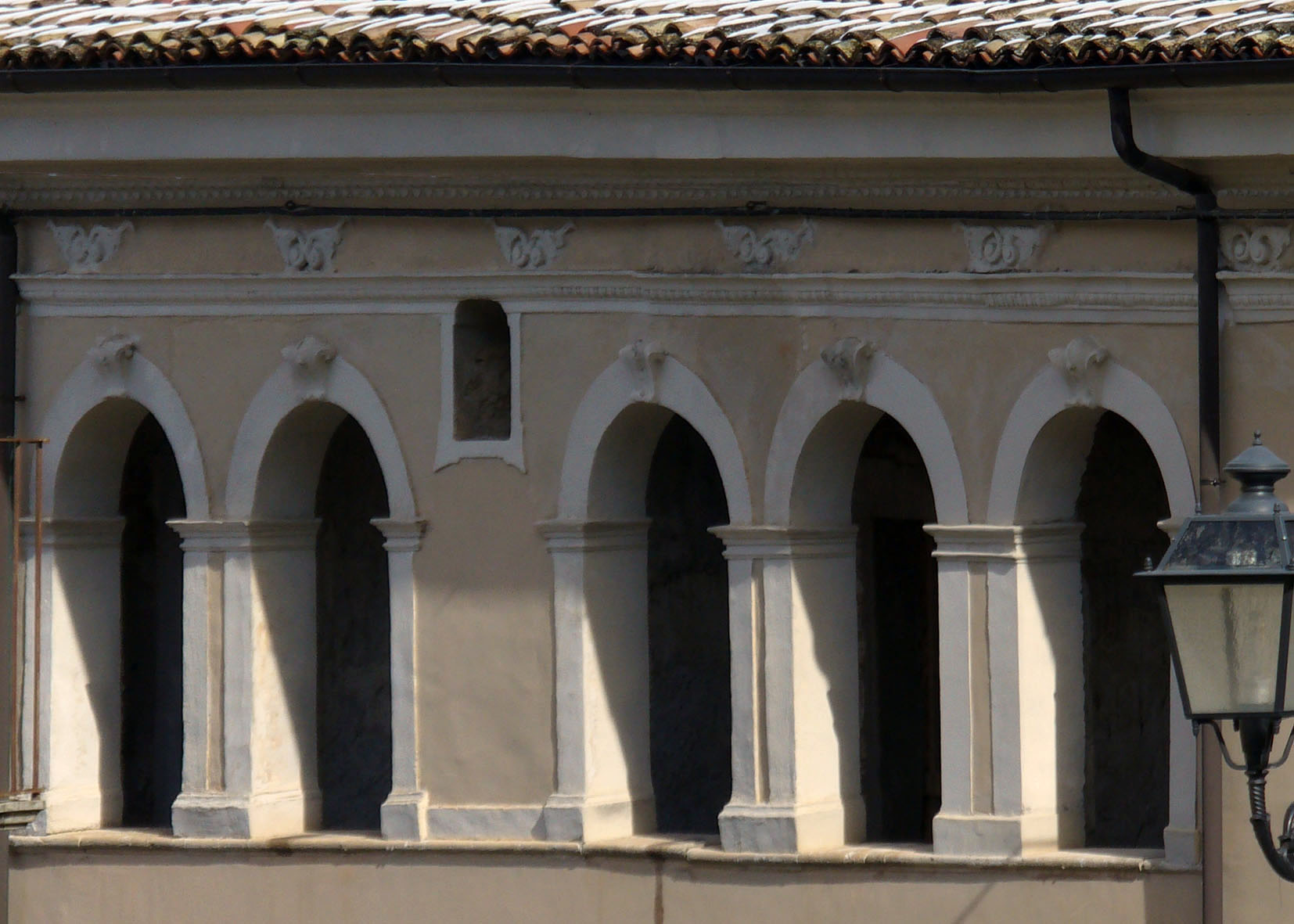 Detail of double trifora loggia Palazzo Alesi, Bugnara, Italy.